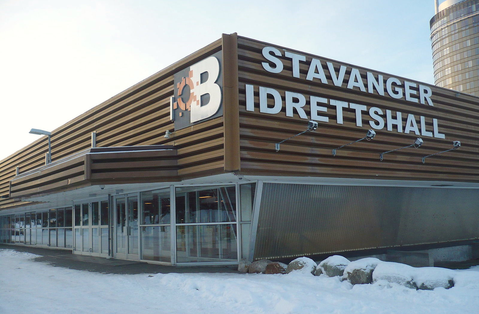 The sports hall at Tjensvoll in Stavanger